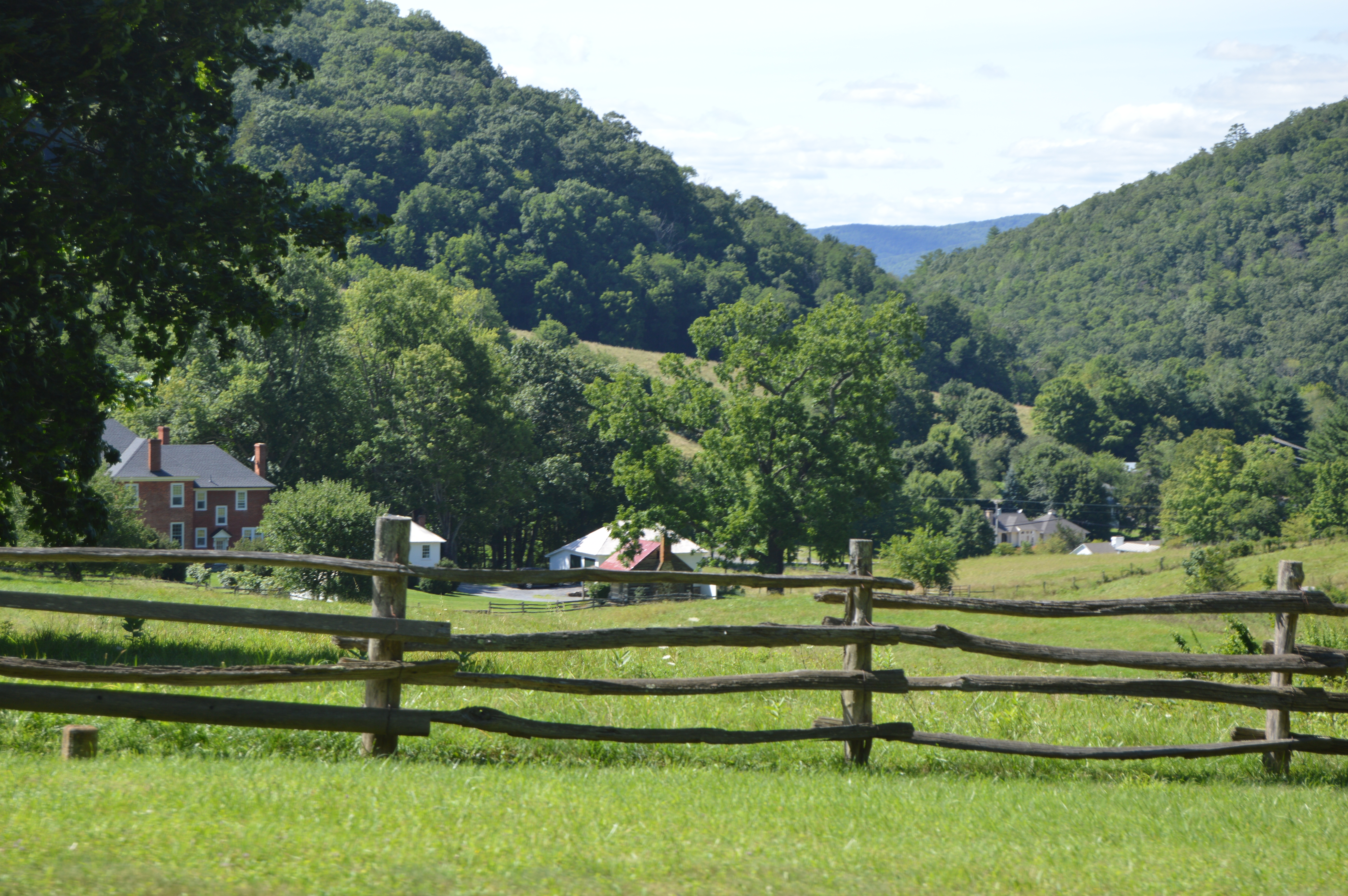 Roadside view of the Oakley Farm complex, located at 11865 U.S. Route 220 between Hot Springs and Warm Springs in Bath County, Virginia, United States. The farm complex is listed on the National Register of Historic Places.